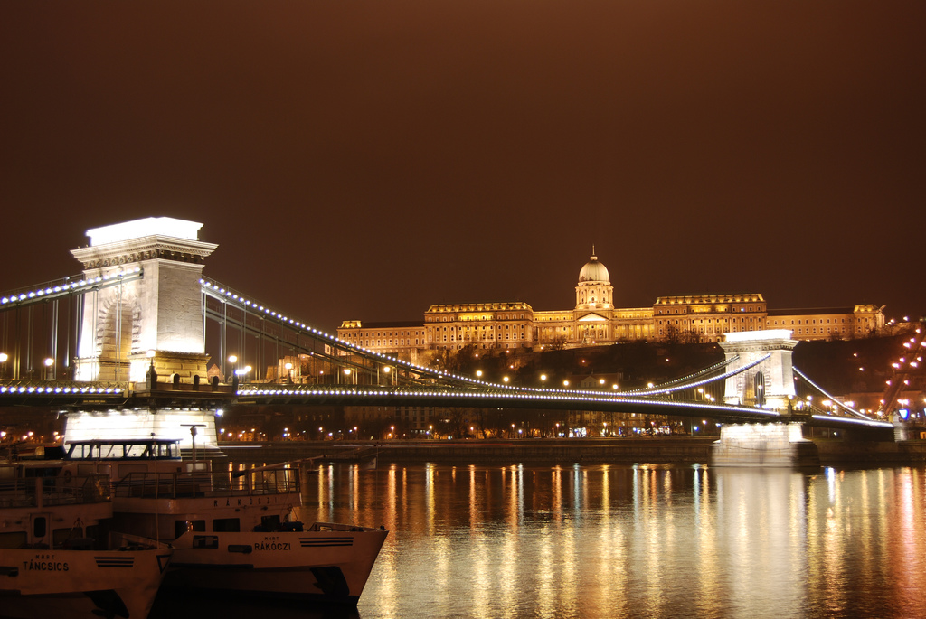 Széchenyi lánchíd or Széchenyi Chain Bridge is a suspension bridge that spans the River Danube between Buda and Pest, the western and eastern sides of Budapest, the capital of Hungary. It was the first permanent bridge across the Danube in Budapest, and was opened in 1849.